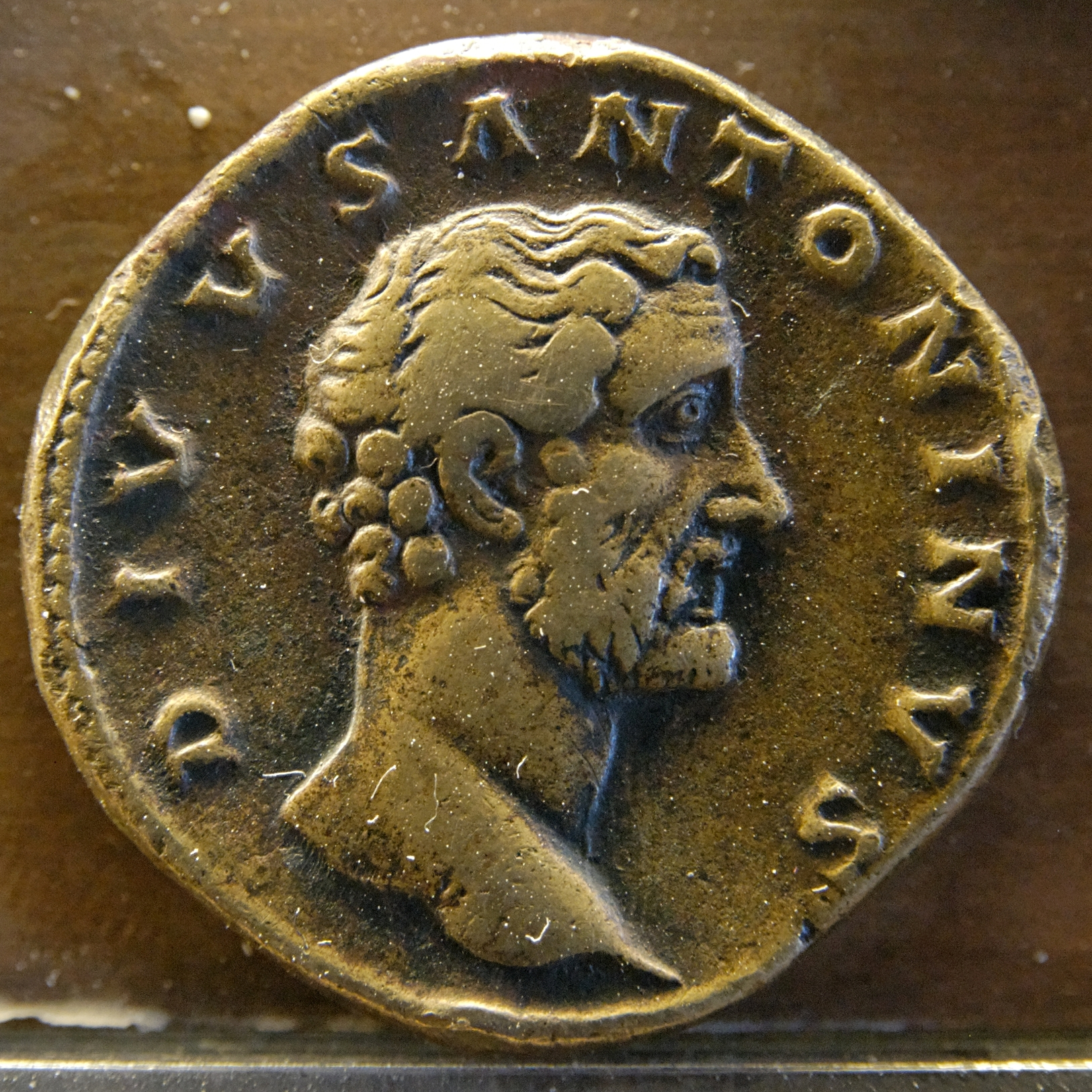 Bronze sestertius with a portrait of Antoninus Pius.